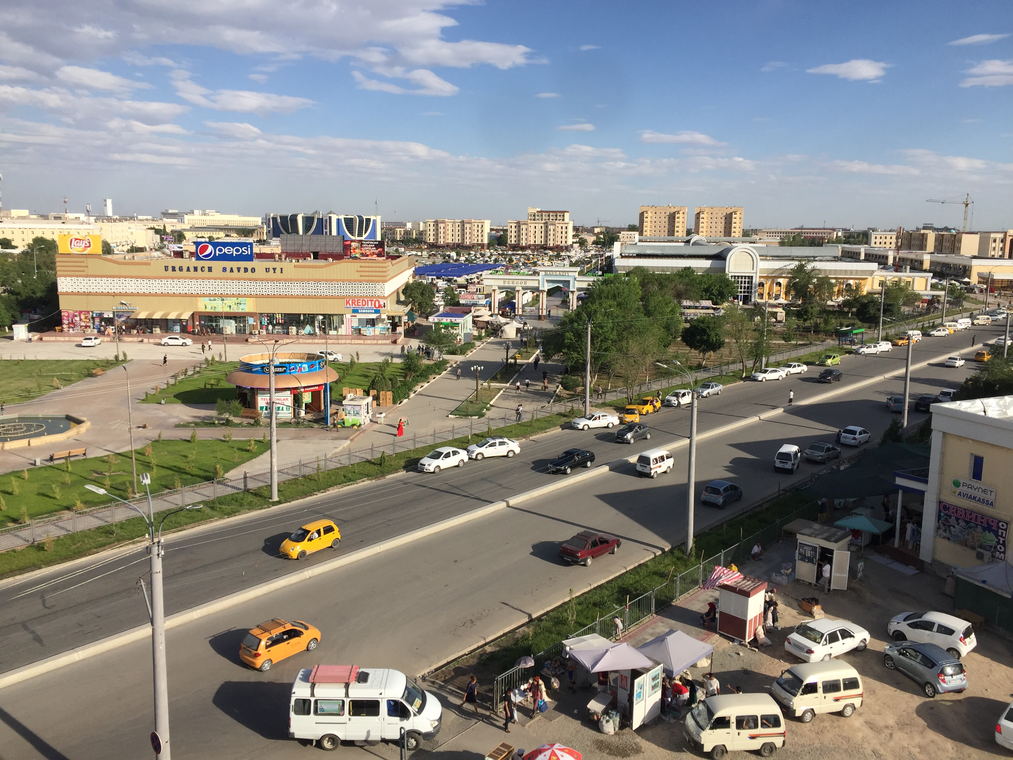 View of Urgentch from the fifth floor of the Hamkor Bank building (Business Centre).